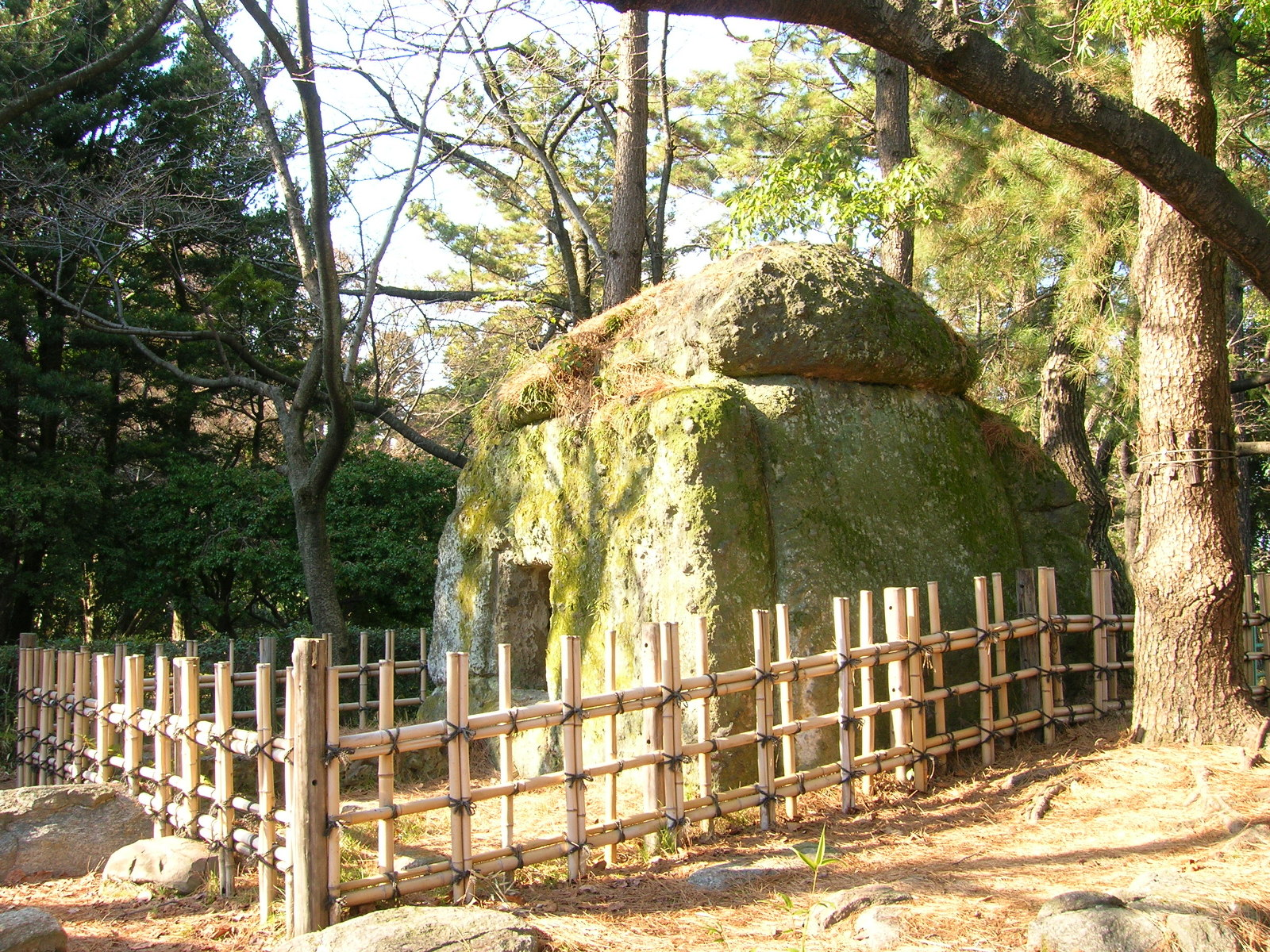 Sarcophagus type stone chamber of Danbara kofun. (Shimane Prefecture) Loc: Nagoya castle, Naka-ku, Nagoya city, Aichi Prefecture, Japan.